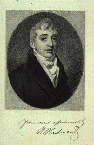 William Blackwood (editor of Blackwood's Edinburgh Magazine)